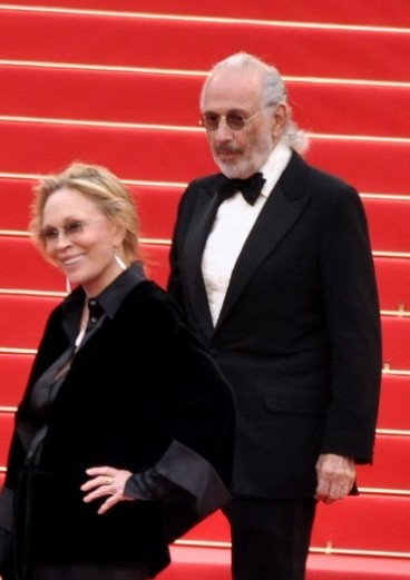 Jerry Schatzberg with Faye Dunaway at the Cannes Film festival.